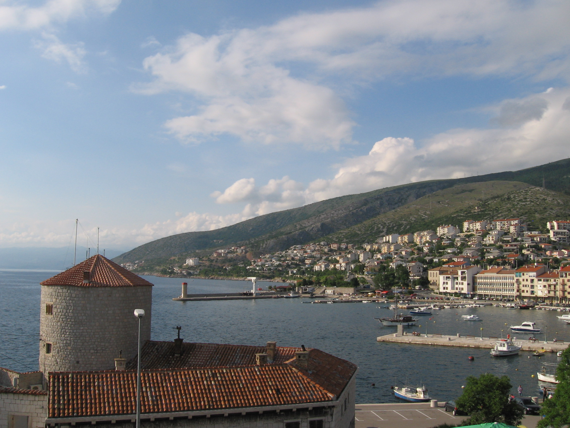 View of the Croatian town of Senj on the shores of the Adriatic Sea north of Croatia.